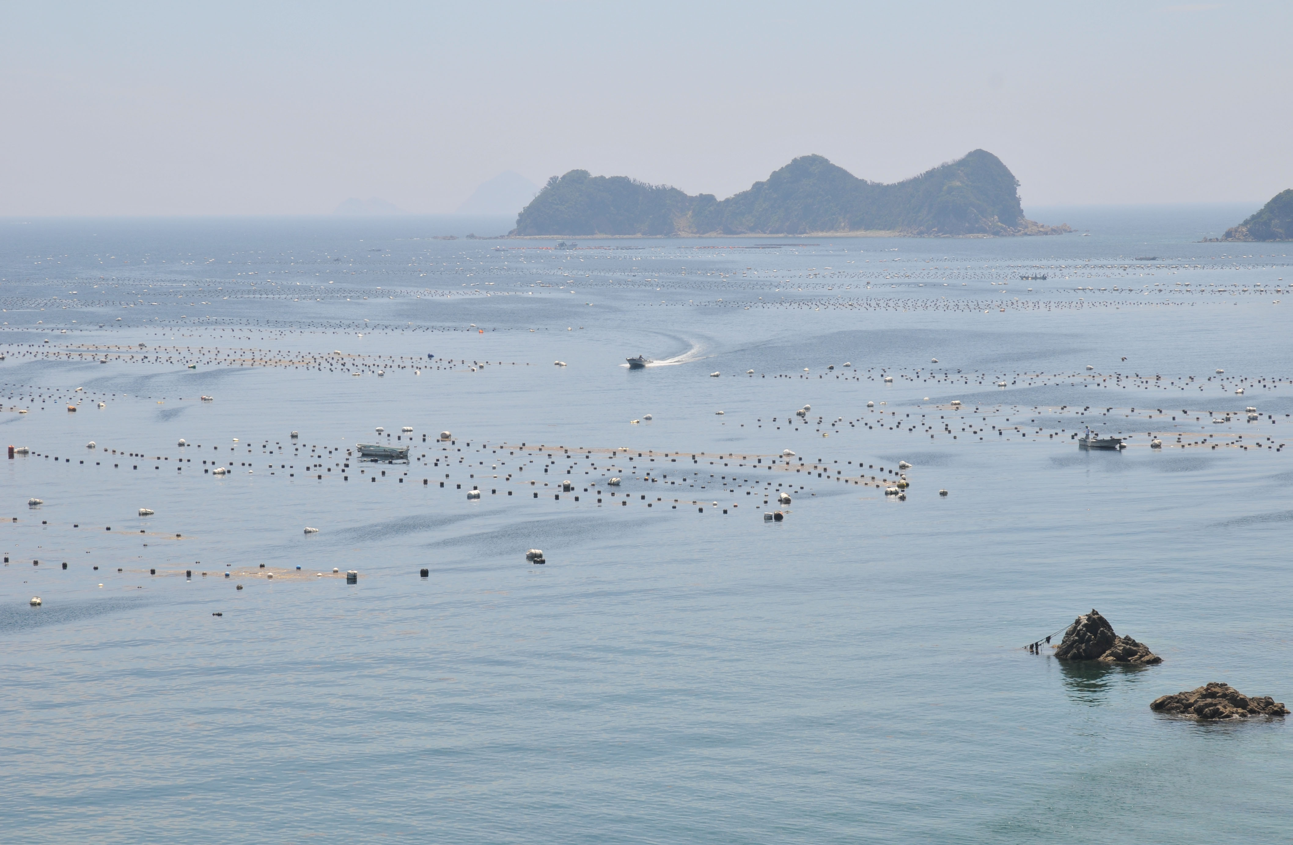 Pearl farm of Uwa Sea